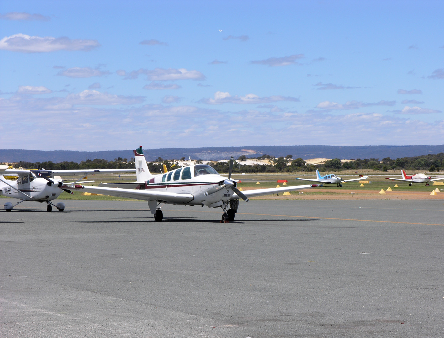 Aircraft at Jandakot Airport, Perth, WA. Taken by me SeanMack.